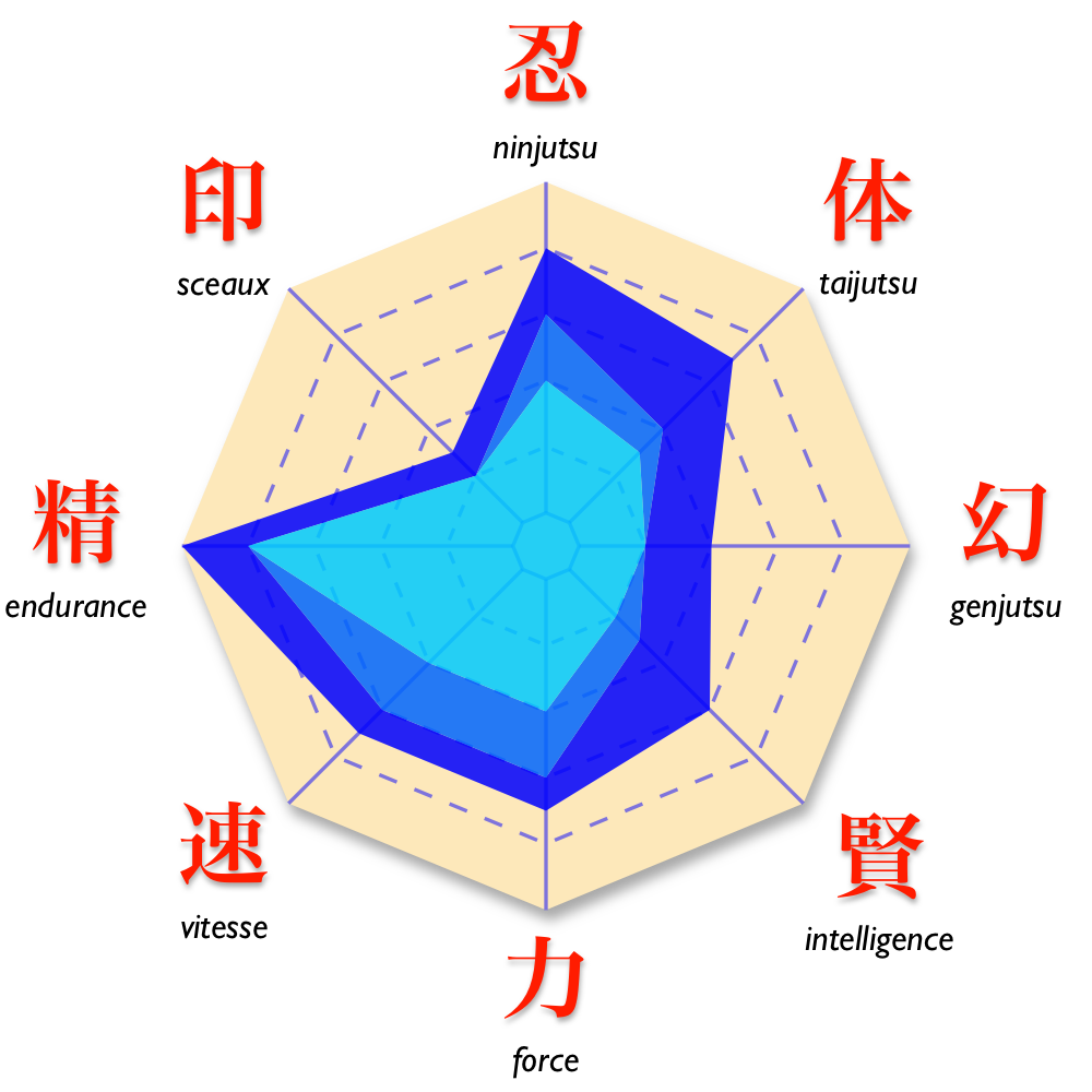 "Naruto" manga - Character "Naruto" - Capabilities evolution diagram from Official Databooks data